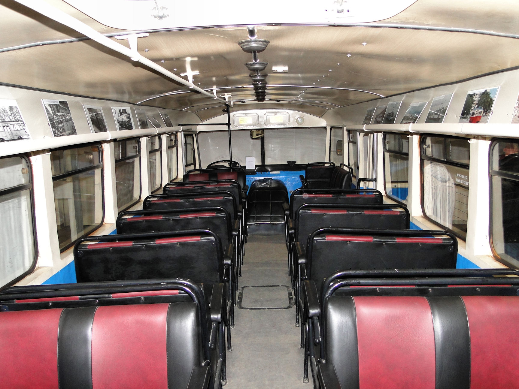 San H100A bus in Szczecin, Poland. Built 1968, Szczecińskie Towarzystwo Miłośników Komunikacji Miejskiej operator. From 2010 in Muzeum Techniki i Komunikacji - Zajezdnia Sztuki w Szczecinie.